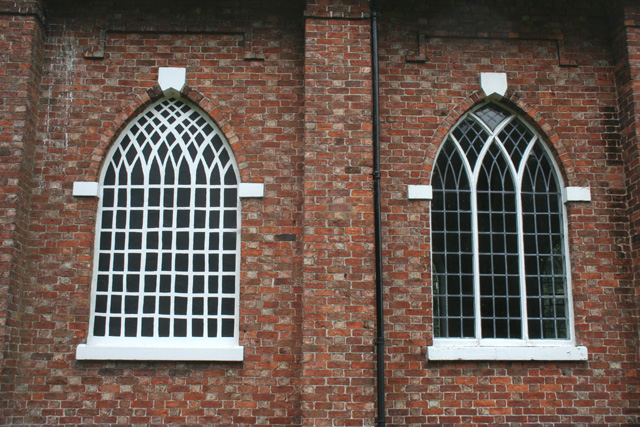 St Michael's Church, Baddiley: detail of windows Detail of 1233313, showing two of the windows of the nave on the south face. The eastmost pair of windows on each face are blocked and replaced with trompe d'oeil (left)